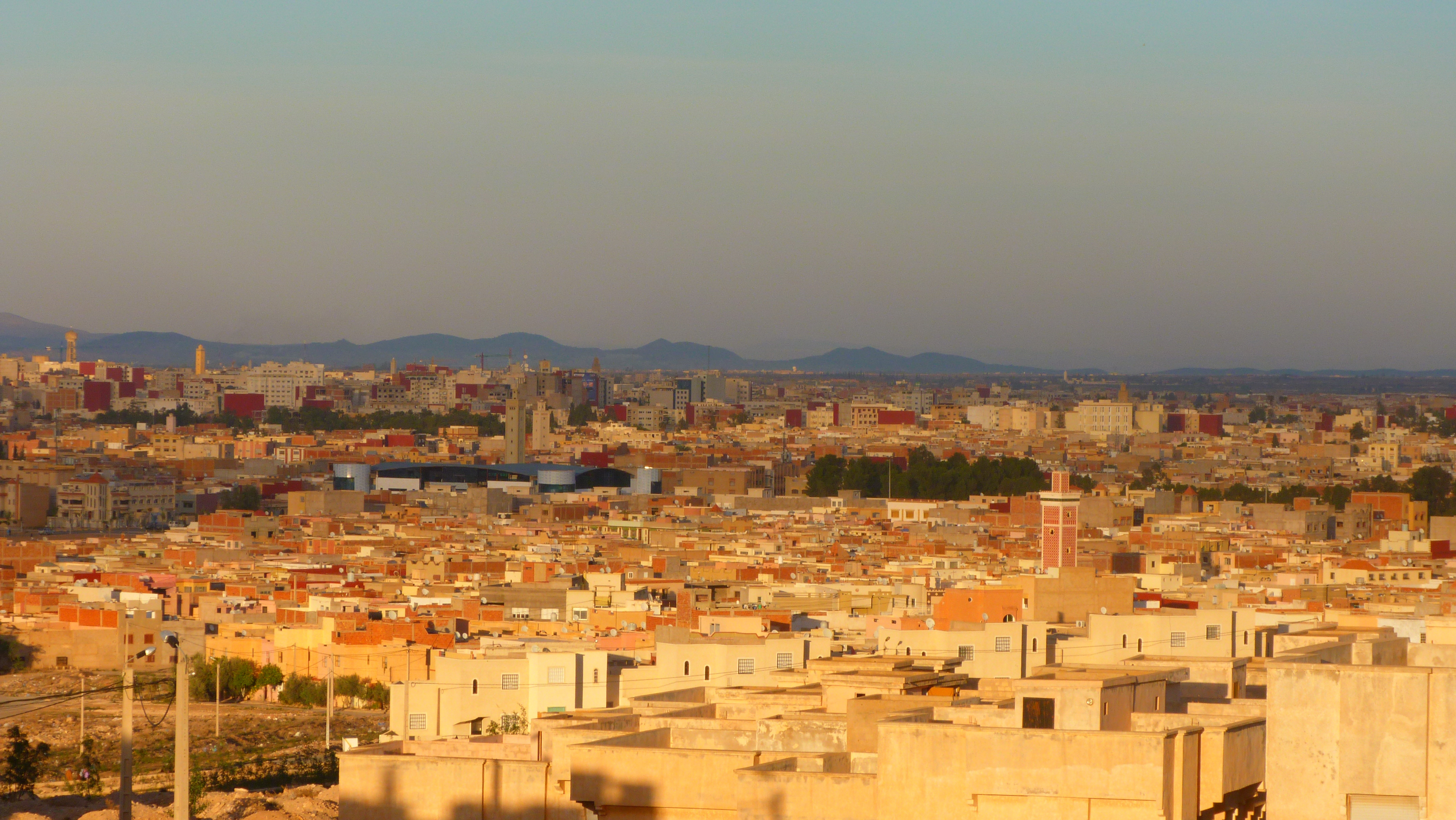 View of Oujda city in Morocco Oriental region from the road N6.